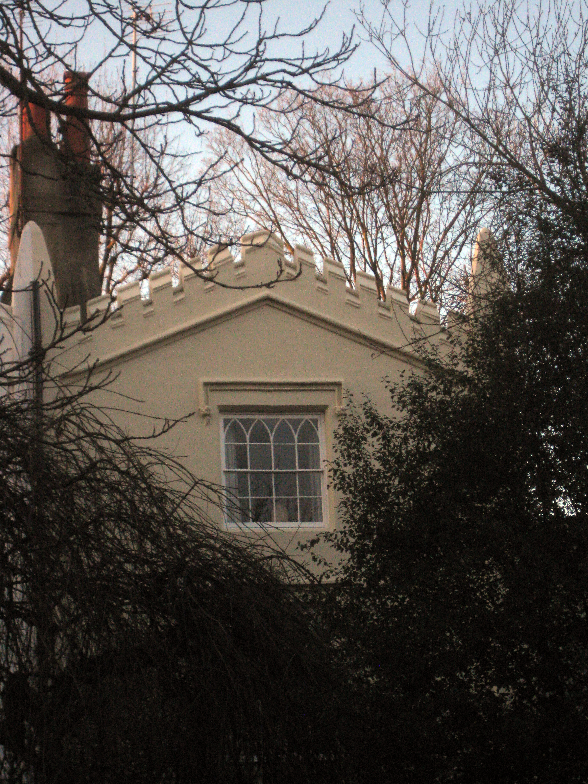 House at 8 Downshire Hill, Hampstead, London. From 1900 to 1902 the house was the headquarters of the Purcell Operatic Society and was lived in by composer Martin Shaw and stage director Edward Gordon Craig